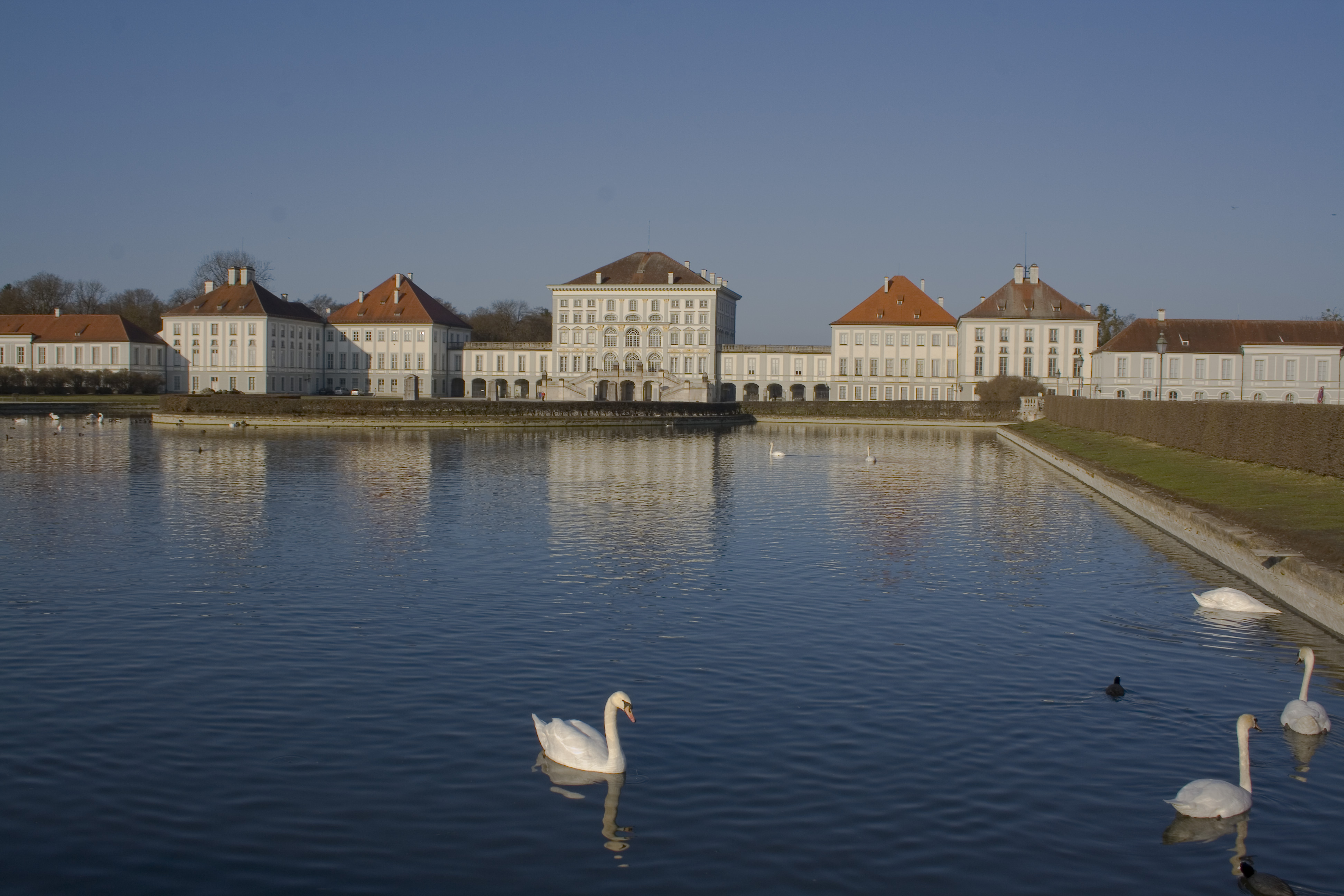 Exterior of the Nymphenburg Palace, Munich, Germany